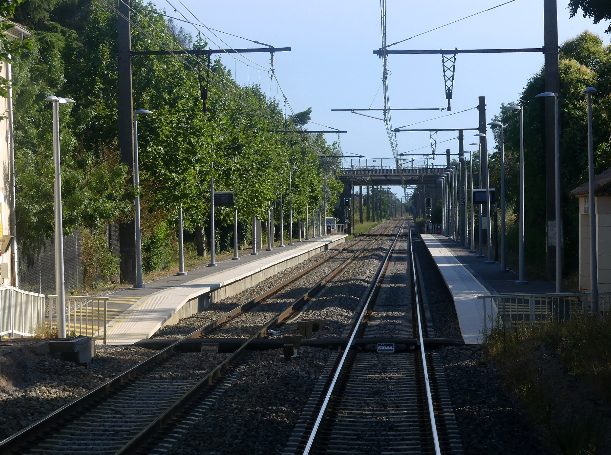 Sight of Villeneuve-lès-Maguelone railway station, between Montpellier and Sète, in Hérault, France.